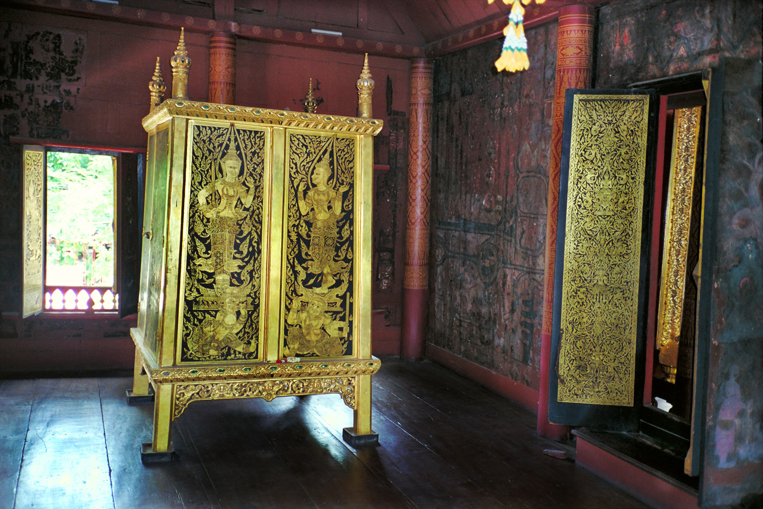 Hor Trai (library) with Ayutthaya book case, Wat Rakhang, Bangkok Noi district, Bangkok, Thailand